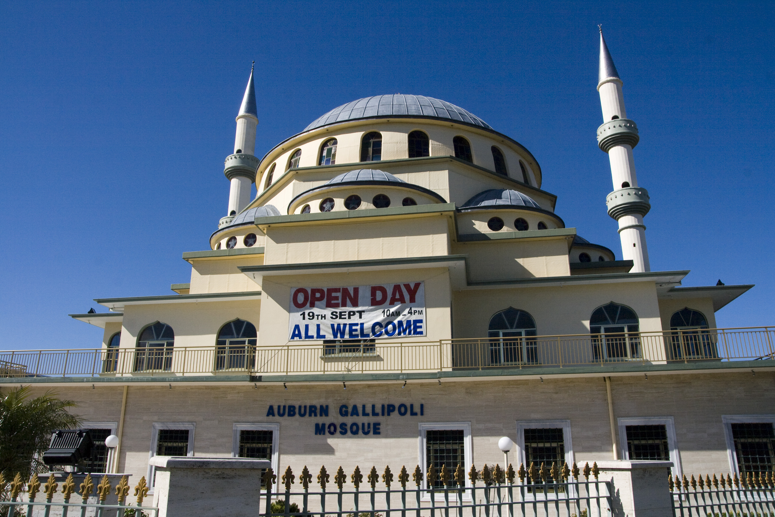 Auburn NSW 2144, Australia